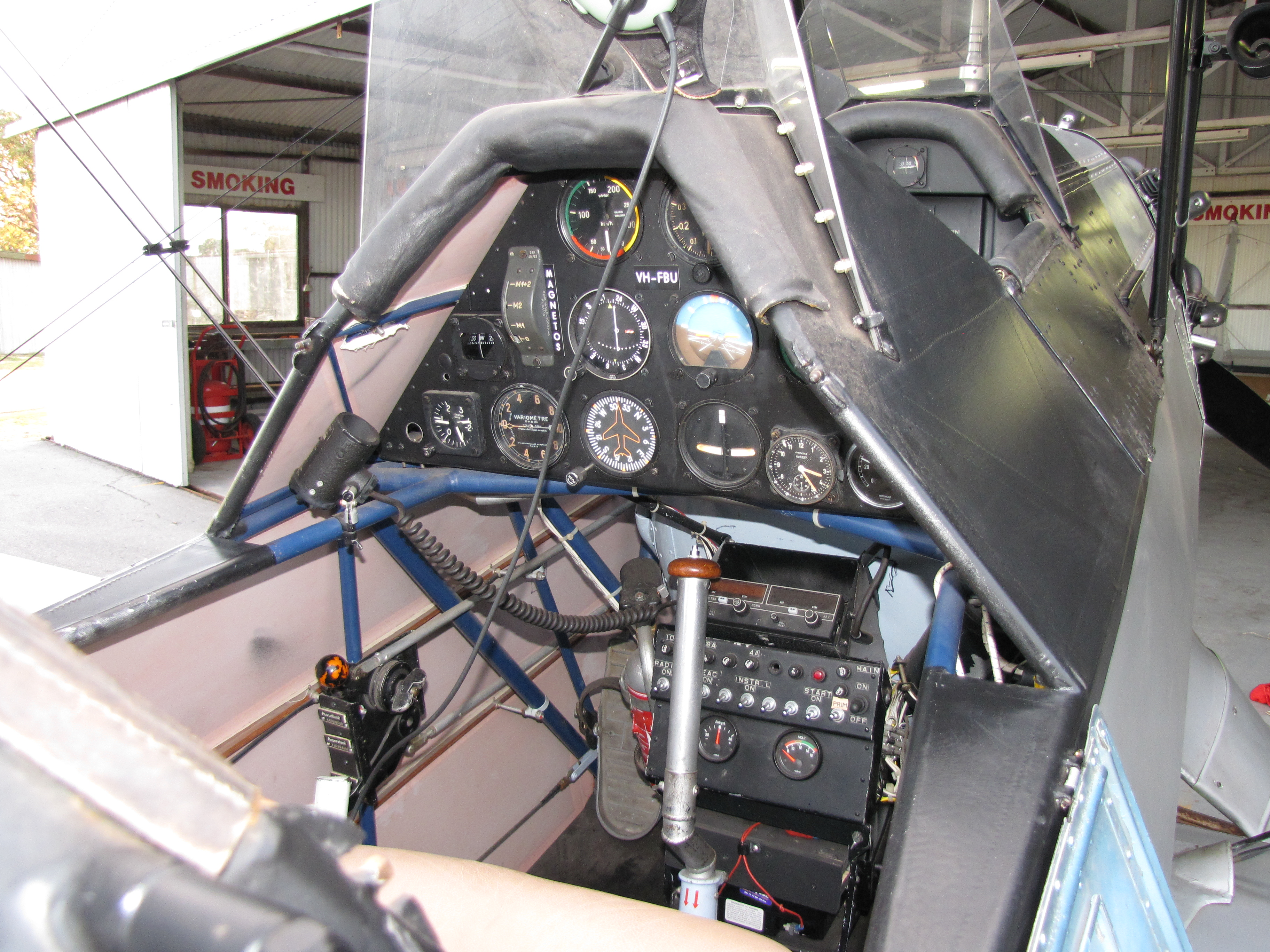 The cockpit of Bert Filippi's Focke-Wulfe FW44J This FW44J was the basic trainer for the German Luftwaffe leading up to WWII. This aircraft was manufactured in 1940 is owned by Bert Filippi and based at Serpentine airstrip in Western Australia. The airfield at Serpentine is owned and managed by members of the Sport Aircraft Builders Club.